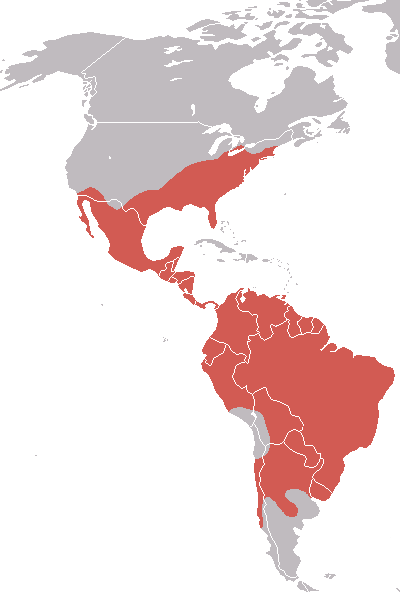 Approximate range of the American Black Vulture